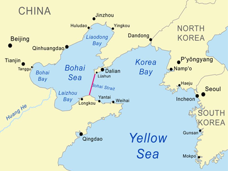 Bohai Strait Tunnel project; the red line indicates the approximate. connection crossing the Bohai Strait.